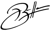 Recreation of Basshunter's signature of his official website (basshunter.se), made using Microsoft Paint.